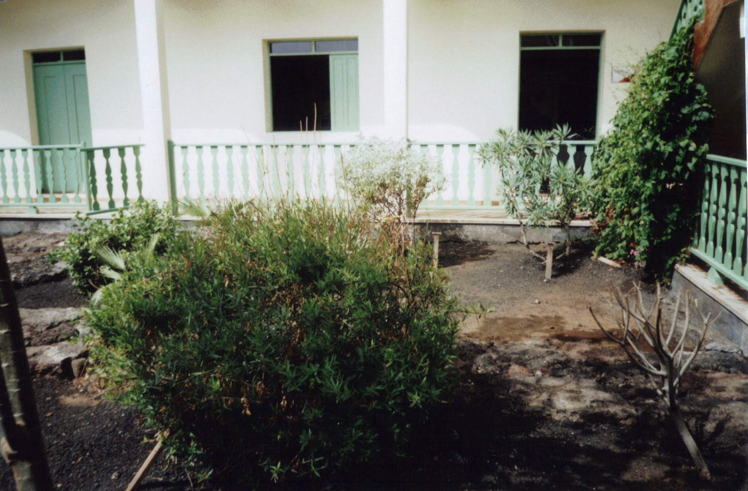 Endemic Plants of Fogo in the museum of S. Felipe: Erysimum caboverdiana (left), Echium vulcanorum (background, in the middle)